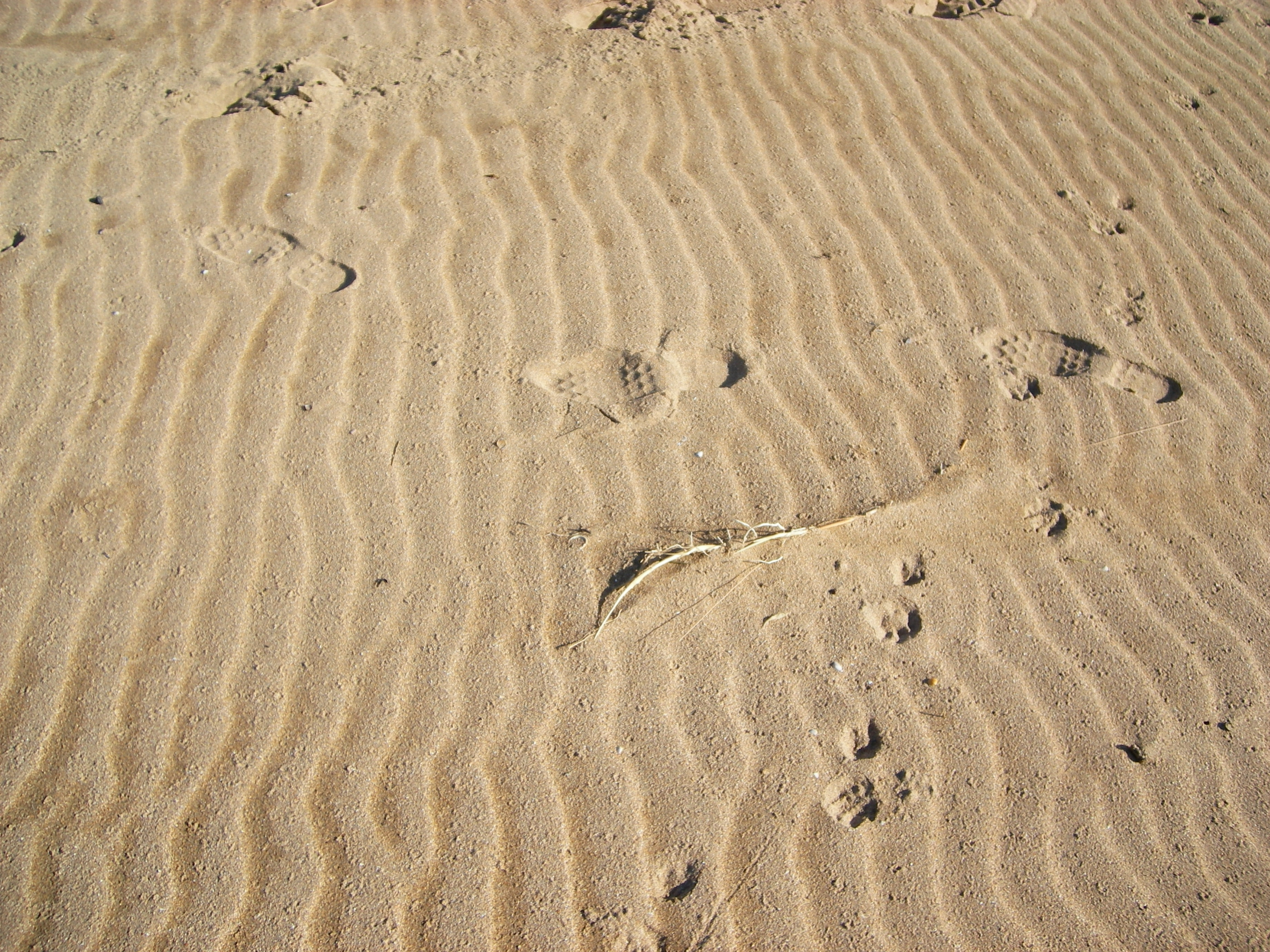 Current ripples formed by wind action. Located in Urdaibai estuary (Basque Country).